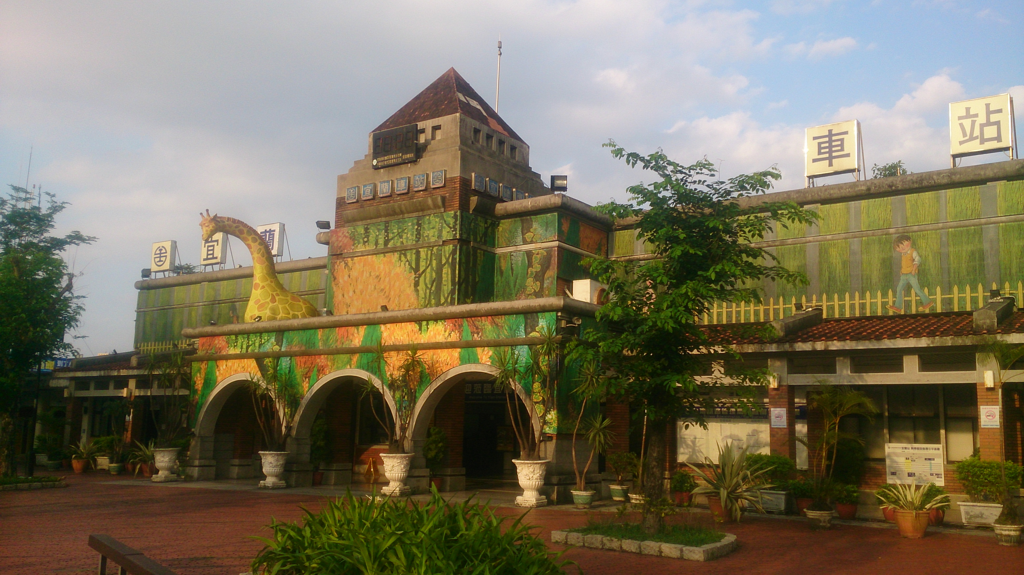 Yilan Station